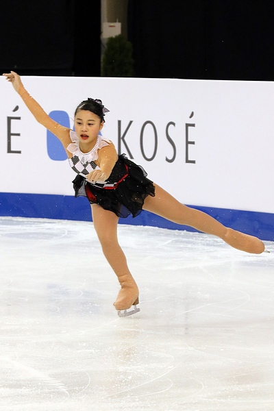 Photos – Junior World Championships 2016 – Ladies (Yuna SHIRAIWA JPN – 4th Place)